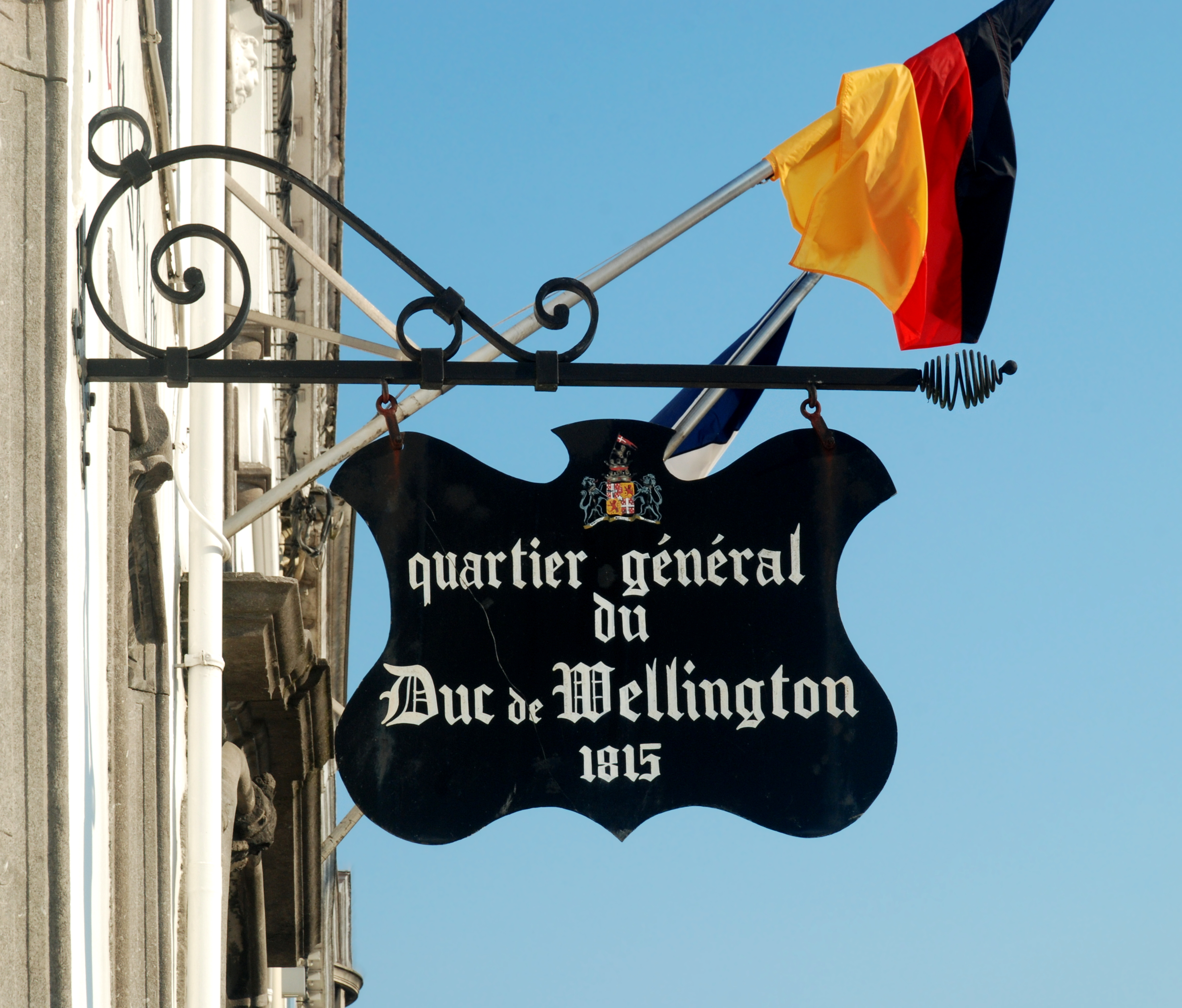 Belgium - Waterloo - Wellington Museum